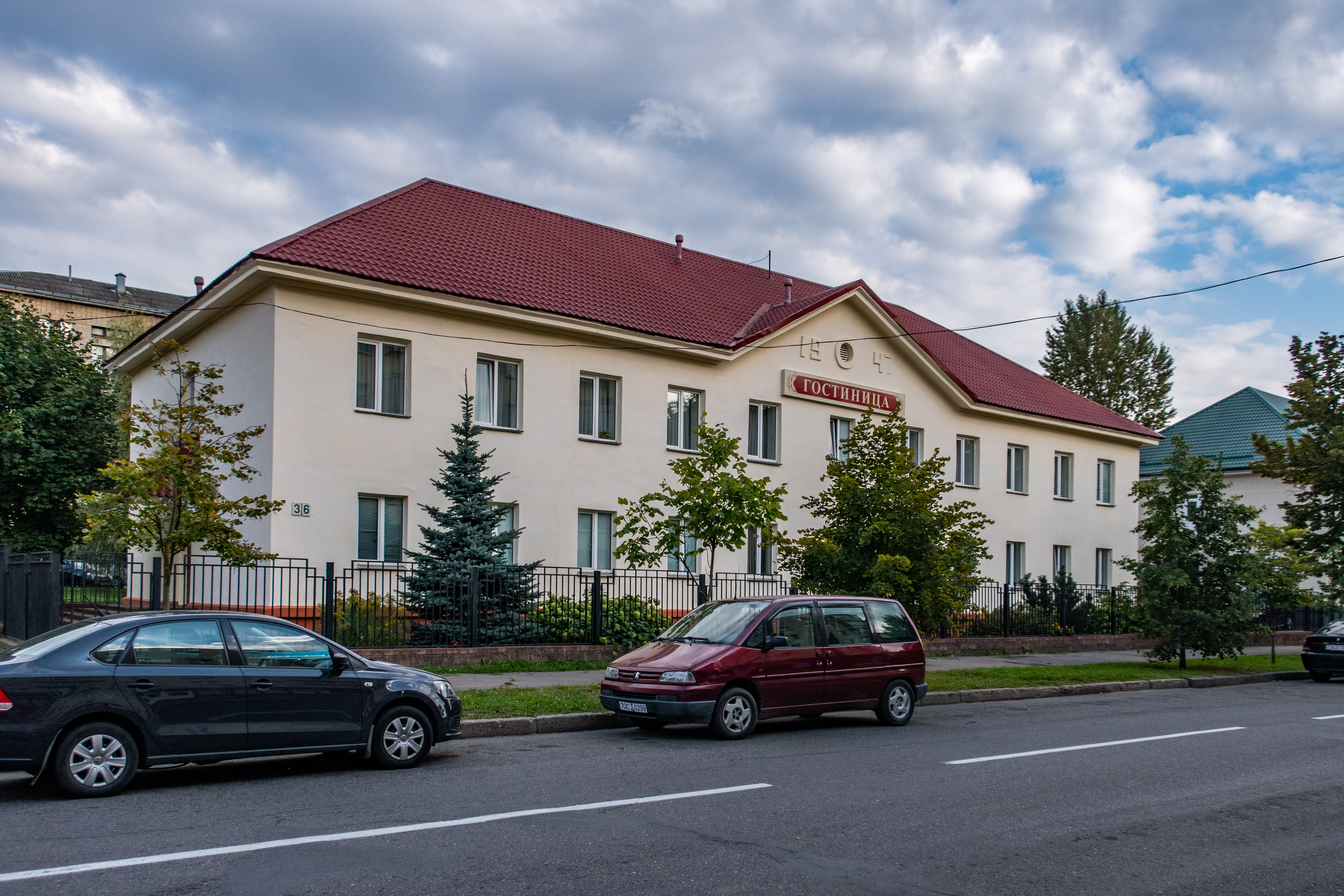 Ščarbakova street. Minsk, Belarus